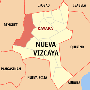 Map of Nueva Vizcaya showing the location of Kayapa